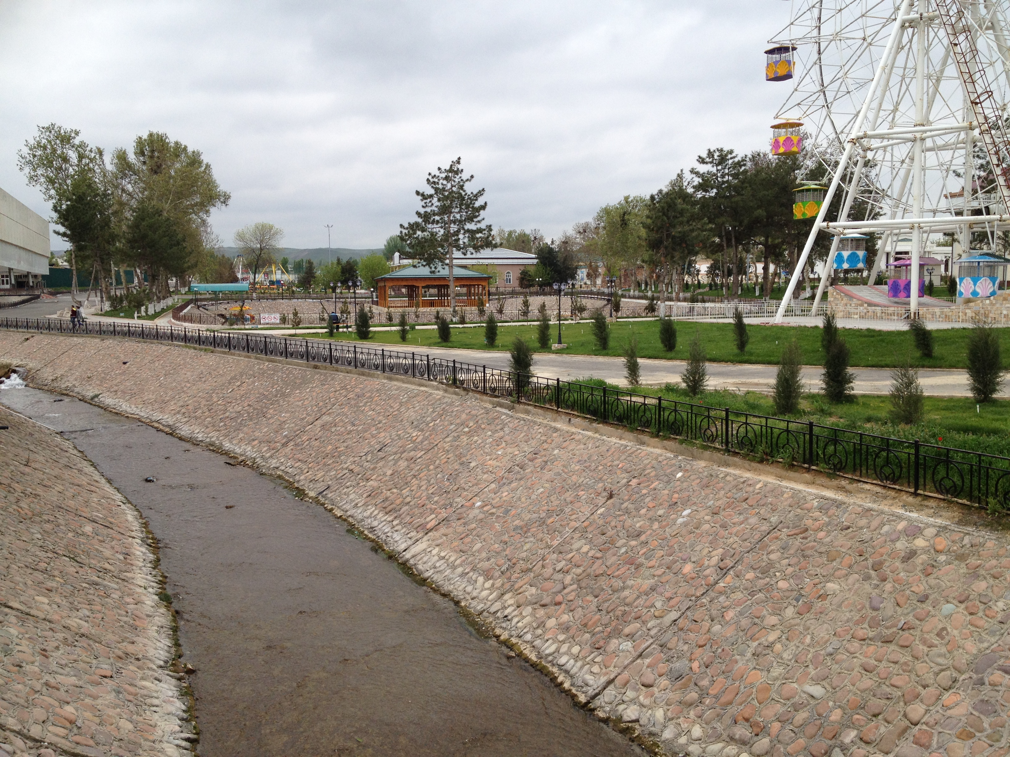 Zaamin-Su in Zaamin town